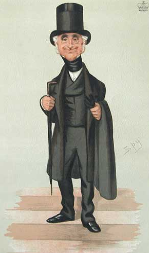 Caricature of Thomas Fremantle, 1st Baron Cottesloe. Caption reads "Customs".